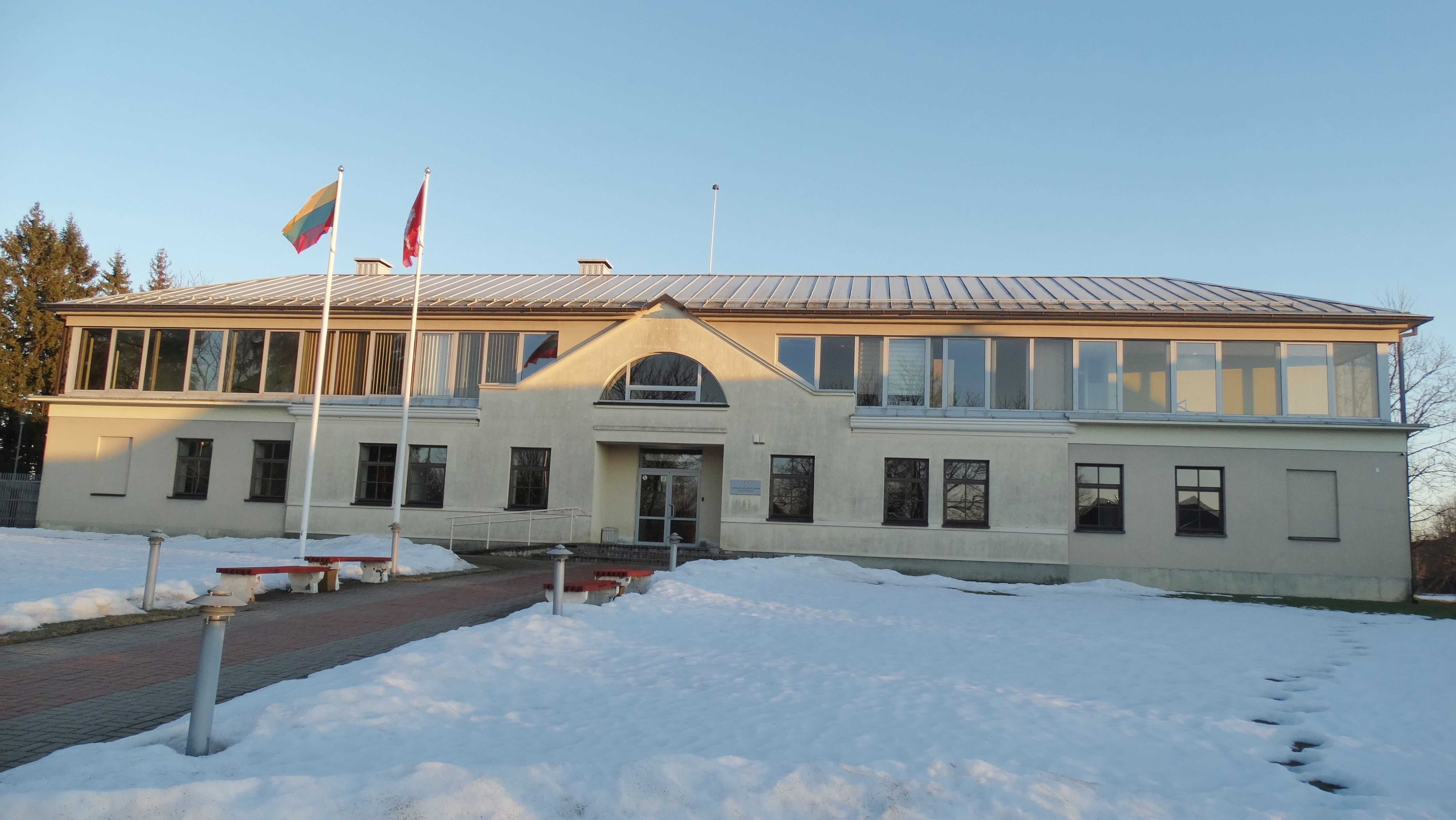 Court, Šilalė, Lithuania